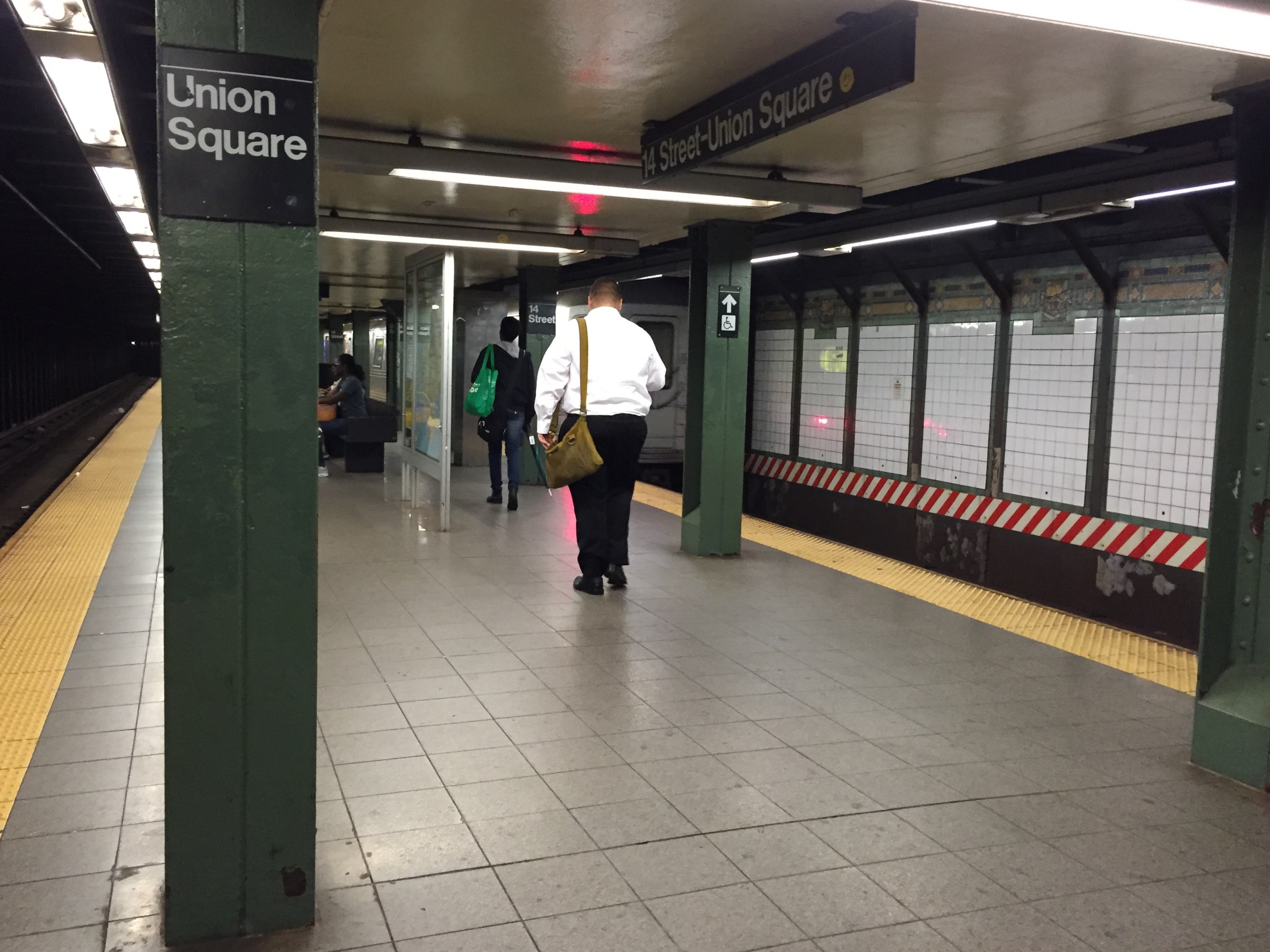 Downtown N/Q/R platform at the 14th St-Union Square station.